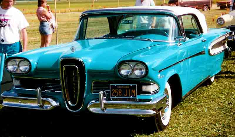 Edsel Citation Convertible 1958